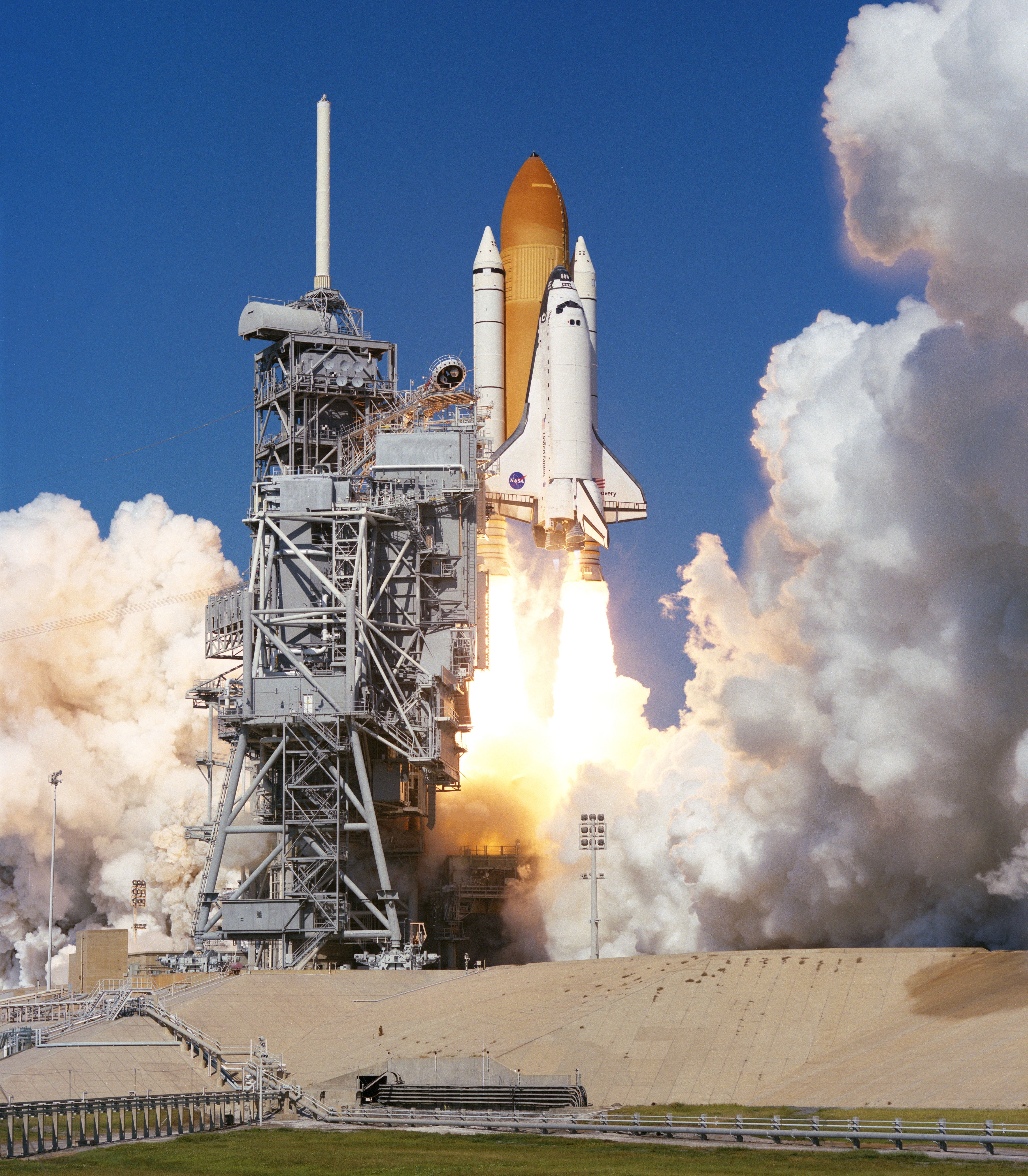 Oct. 29, 1998 -- The space shuttle Discovery lifts off Launch Pad 39B to begin a nine-day mission in Earth-orbit. Launch was at 2:19 p.m. EST, Oct. 29, 1998. Onboard were Curtis L. Brown Jr., Steven W. Lindsey, Scott F. Parazynski, Steven K. Robinson, Pedro Duque, United States Senator John H. Glenn Jr. and Chiaki Naito-Mukai. Duque is a mission specialist representing the European Space Agency (ESA) and Mukai is a payload specialist representing Japan's National Space Development Agency (NASDA). Glenn, making his second spaceflight but his first in 36 years, joins Mukai as a payload specialist on the mission. Photo credit: NASA NASA image use policy.